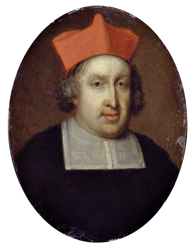 Kardinal Philip Thomas Howard (1629-1694), Ölbild, frühes 18. Jahrhundert